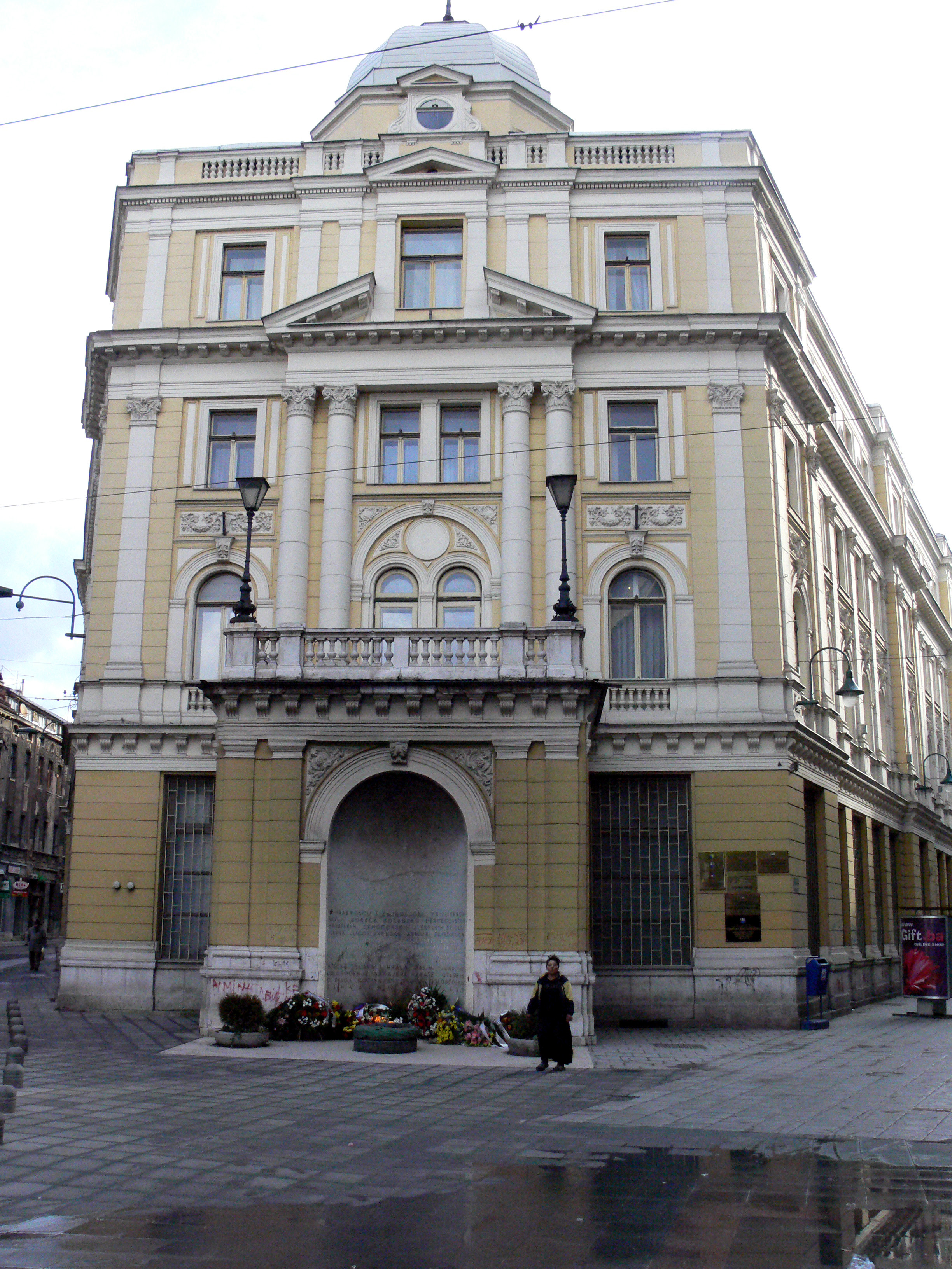 The Finance ministry in Sarajevo.